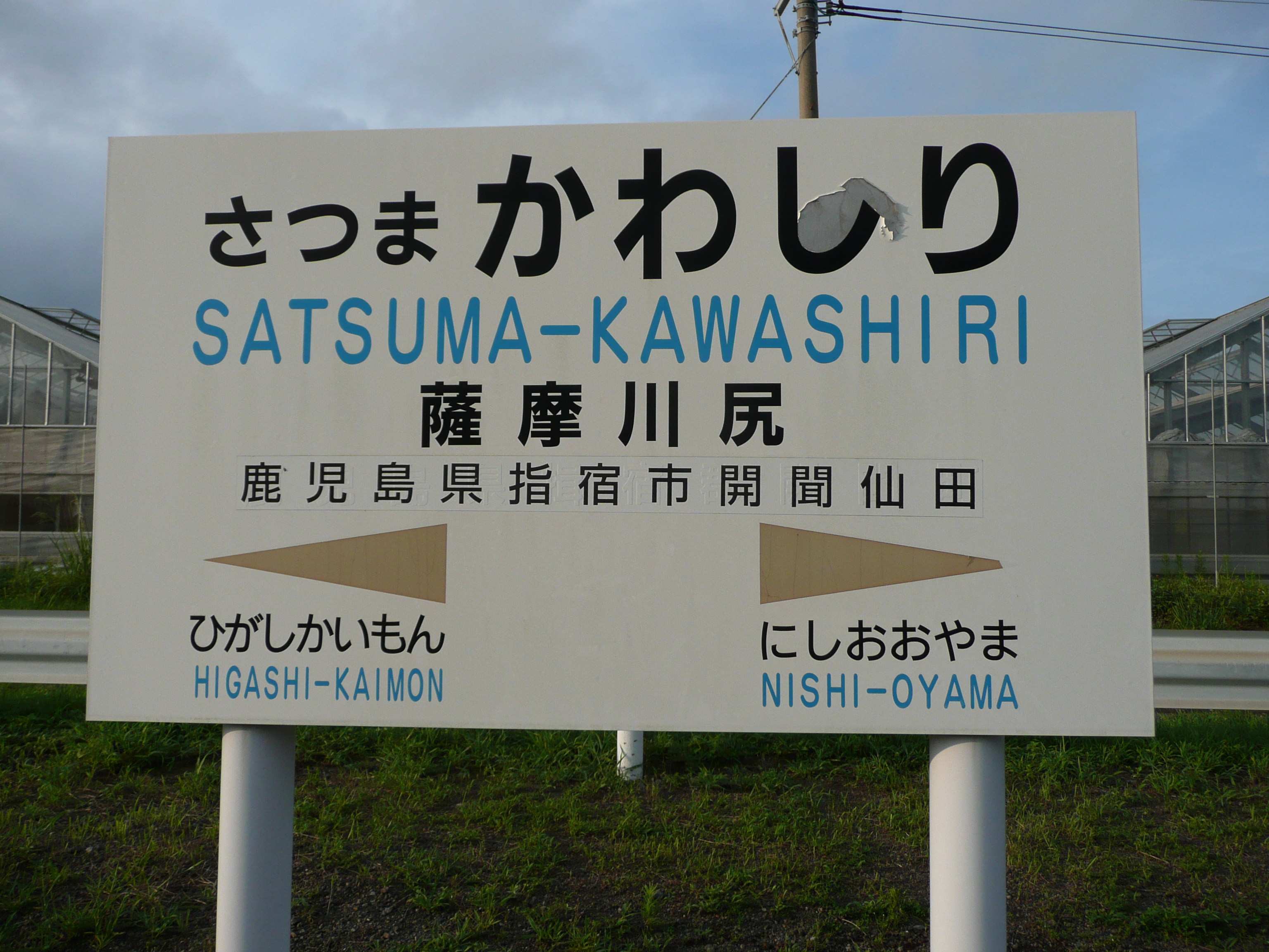 Satsuma-Kawashiri Station sign